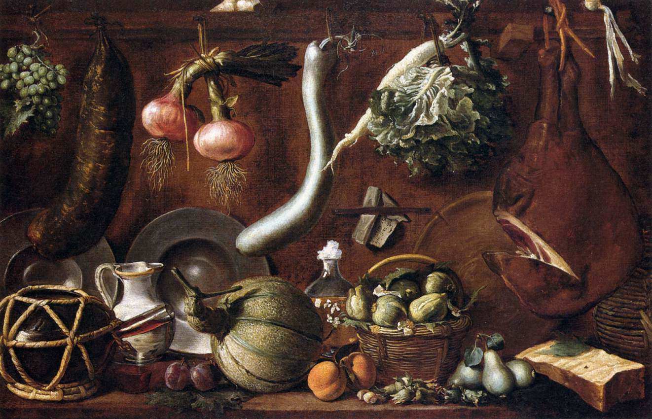 Sideboard with Crockery, Fruit, Vegetables, Sausage and ham